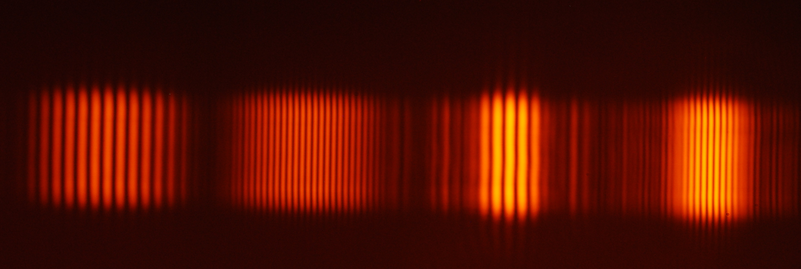 The diffraction pattern of four pairs of slits taken with light from a sodium lamp, and the open body of a digital camera. The patterns on the left were produced by 0.04 mm slits, the brighter patterns on the right by slits twice as wide. The slit distance was 0.250 mm for the first and the third pair of slits, and 0.500 mm for the second and the fourth pair. The interference fringes are visible up to the first minima of the single-slit diffraction patterns. Photo produced using Pasco OS-9179